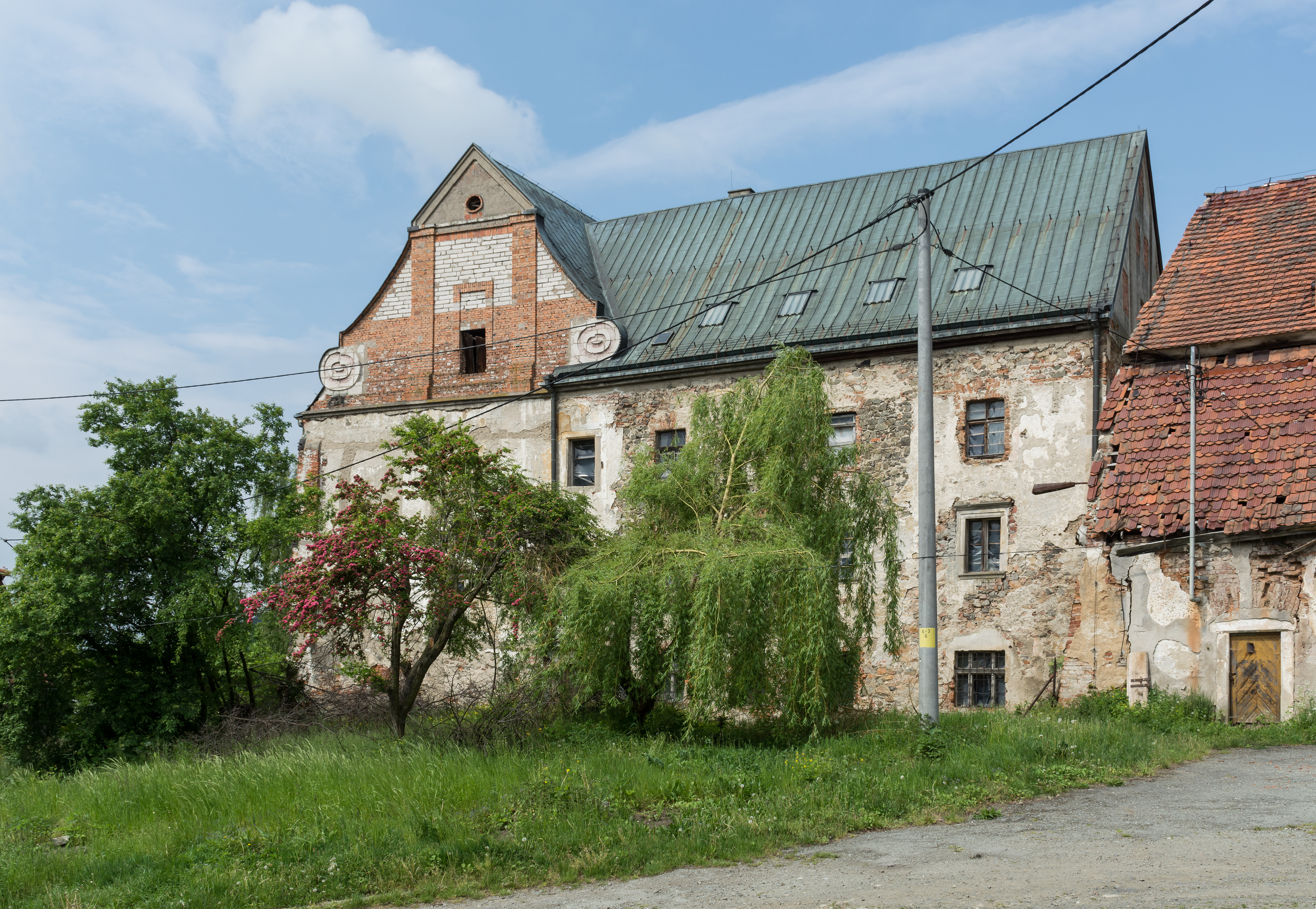 Manor in Jaszkowa Górna